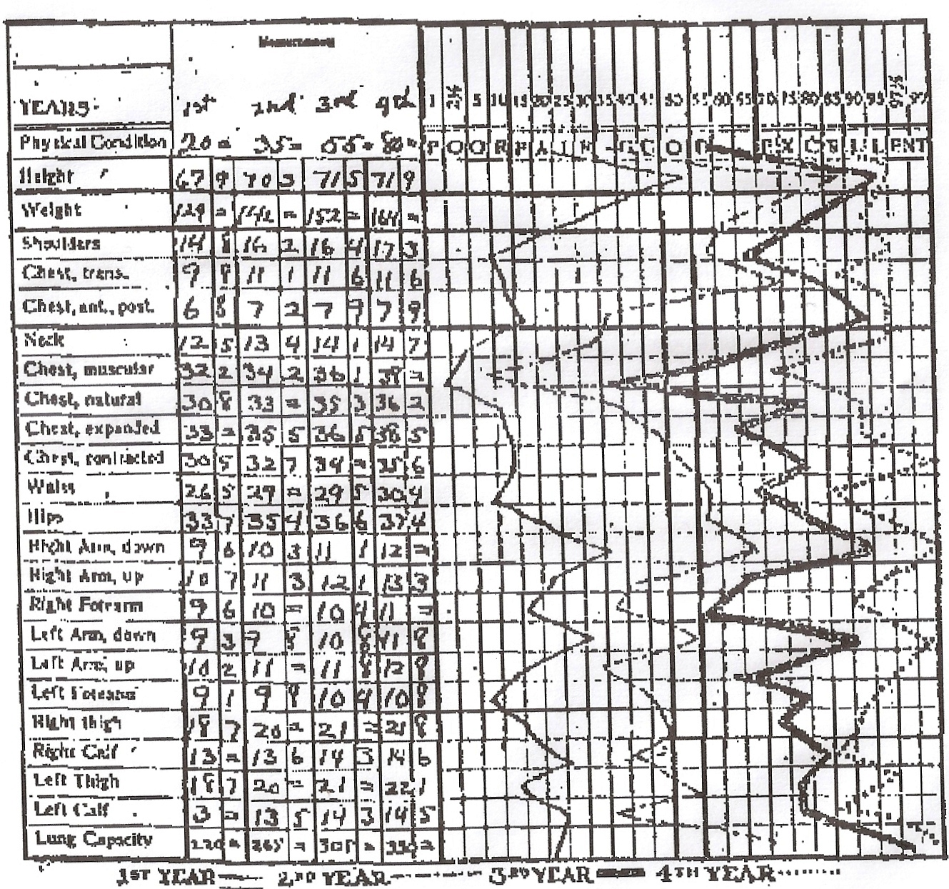 Image of anthopometric chart used by Keene Fitzpatrick at University of Michigan, 1910